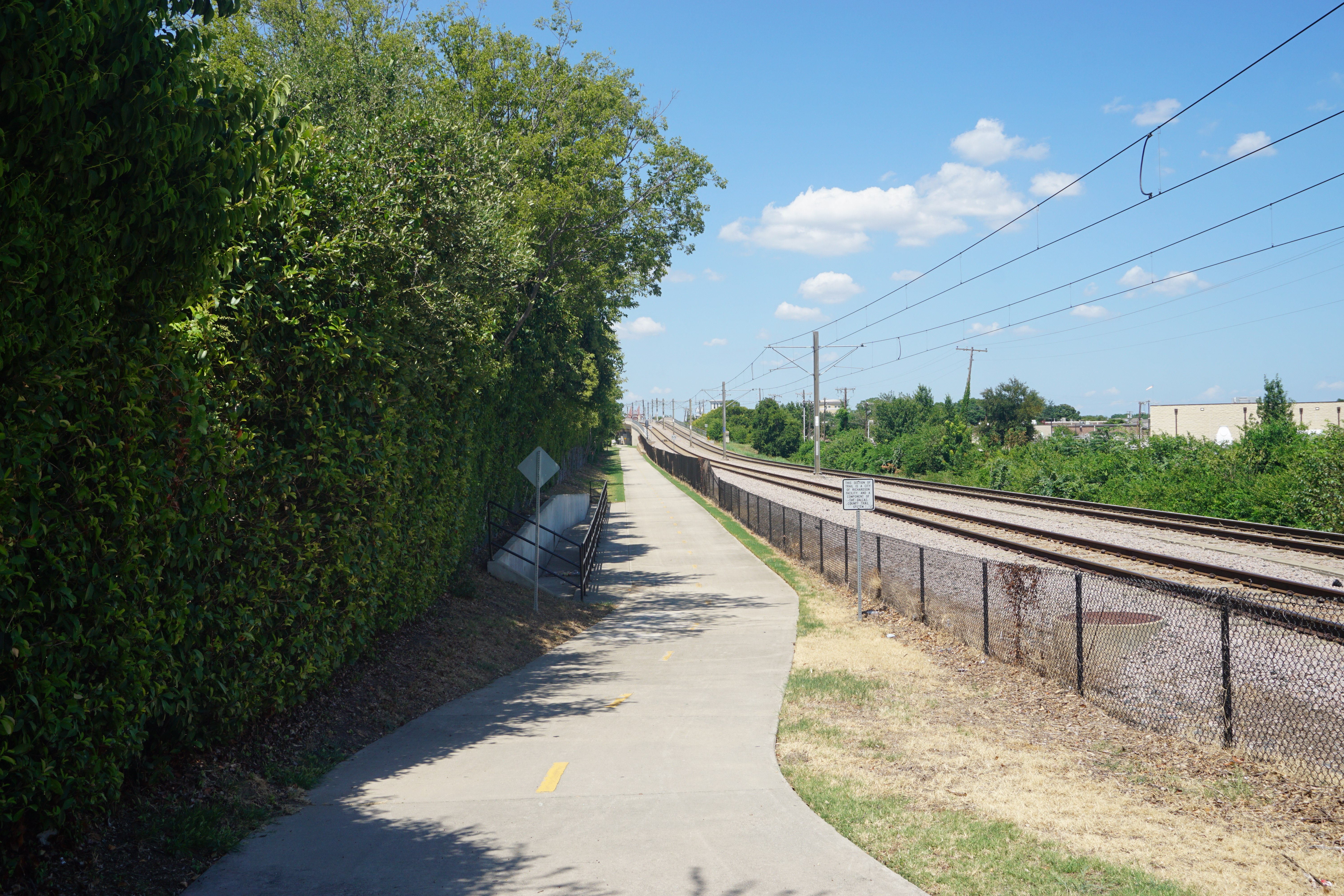 The Central Trail in Richardson, Texas (United States).